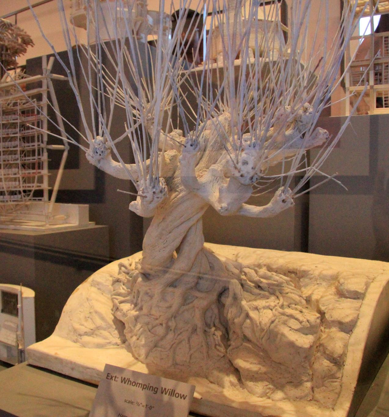 Warner Bros. Studio Tour London: The Making of Harry Potter.